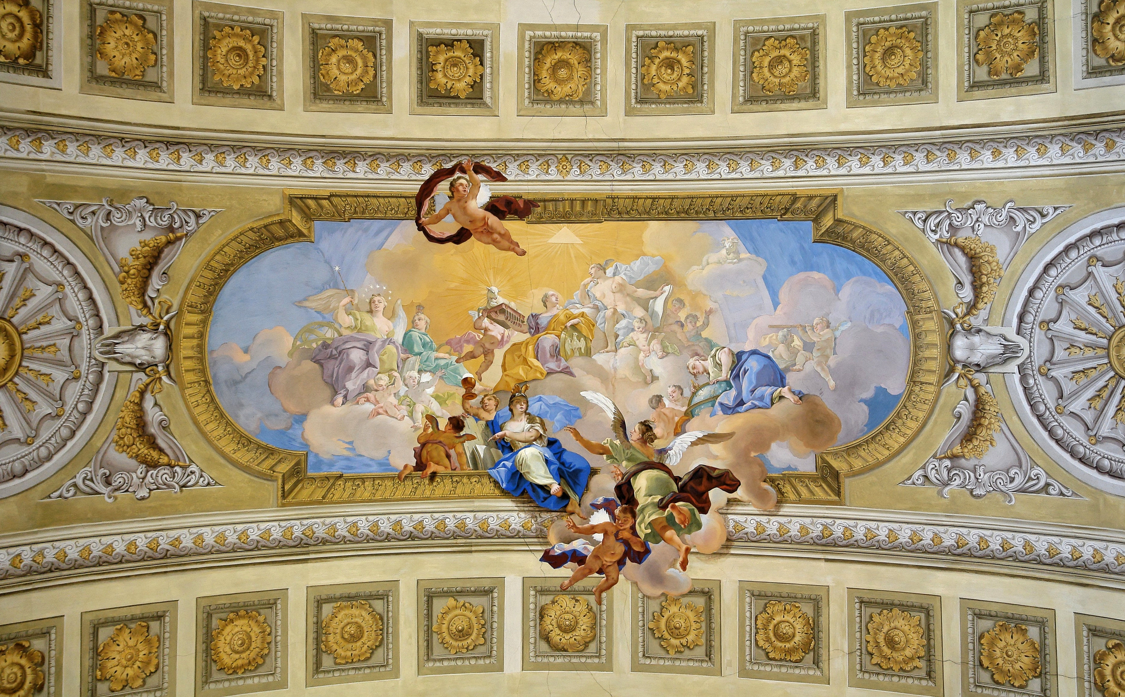 Prunksaal: allegory of peace and heaven. Ceiling painting made by Daniel Gran (1694-1757) and finished in 1730. The State hall of the Austrian National Library [1] was designed and started by Johann Fischer von Erlach [2] and finished by his son Joseph Emanuel [3] was finished in 1726. The frescoes reflect the division of the Prunksaal, after the original list of the books, into a "war-law" and a "peace-heaven" wings. The barock program for the fresco was done by Conrad Adolph von Albrecht (1682–1751)